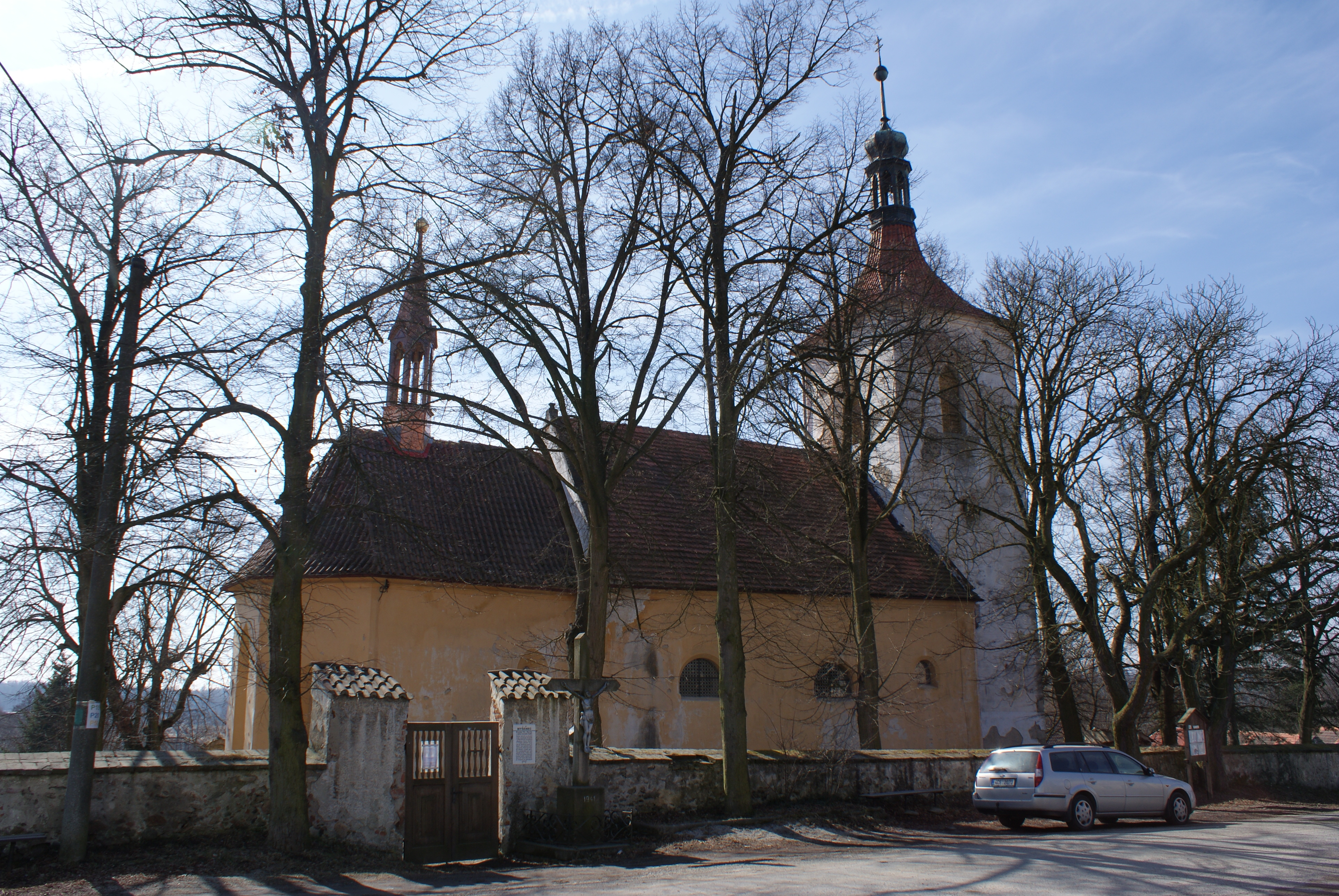 Myšenec a village in Písek district, Czech Republic, St Gall’s church.